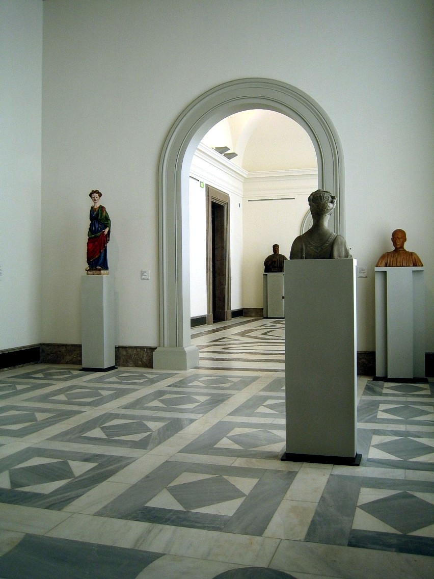 Bode-Museum Native nameBode-MuseumLocationBerlinCoordinates52° 31′ 19″ N, 13° 23′ 41″ E Established1904Website control Authority control : Q157825 VIAF: 131826984 ISNI: 0000 0001 2348 0535 LCCN: nr2007002827 GND: 5044715-4 SUDOC: 120850370 WorldCat Interior.